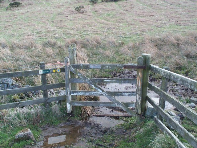 Watch the bog! Insignificant wicket gate - or is it. This lies on the boundary between Kirknewton and Kilham parishes (and if you didn't know it, at parish boundaries, all footpaths and bridleway are renumbered to the parish they are in) So here the Kirknewton public footpath No. 5 ends and Kilham public footpath No. 4 continues on. However Kirknewton Bridleway No. 6 also ends here and there is no ongoing bridleway, so what you are to do with your horse here, other than returning from whence you came, no-one knows.